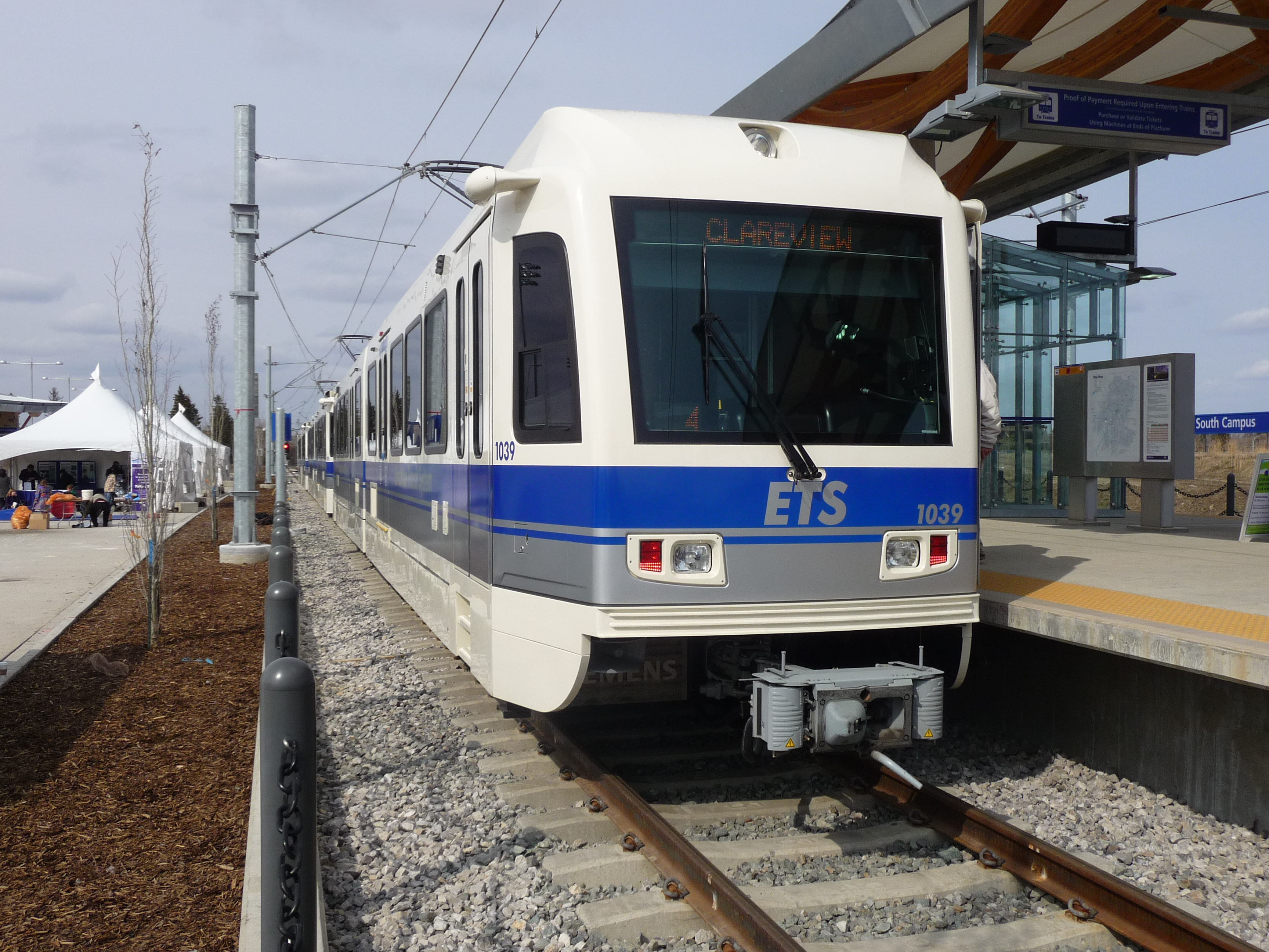 A Siemens SD-160 Light Rail Vehicle, owned and operated by Edmonton Transit System (ETS), waiting at South Campus Station.